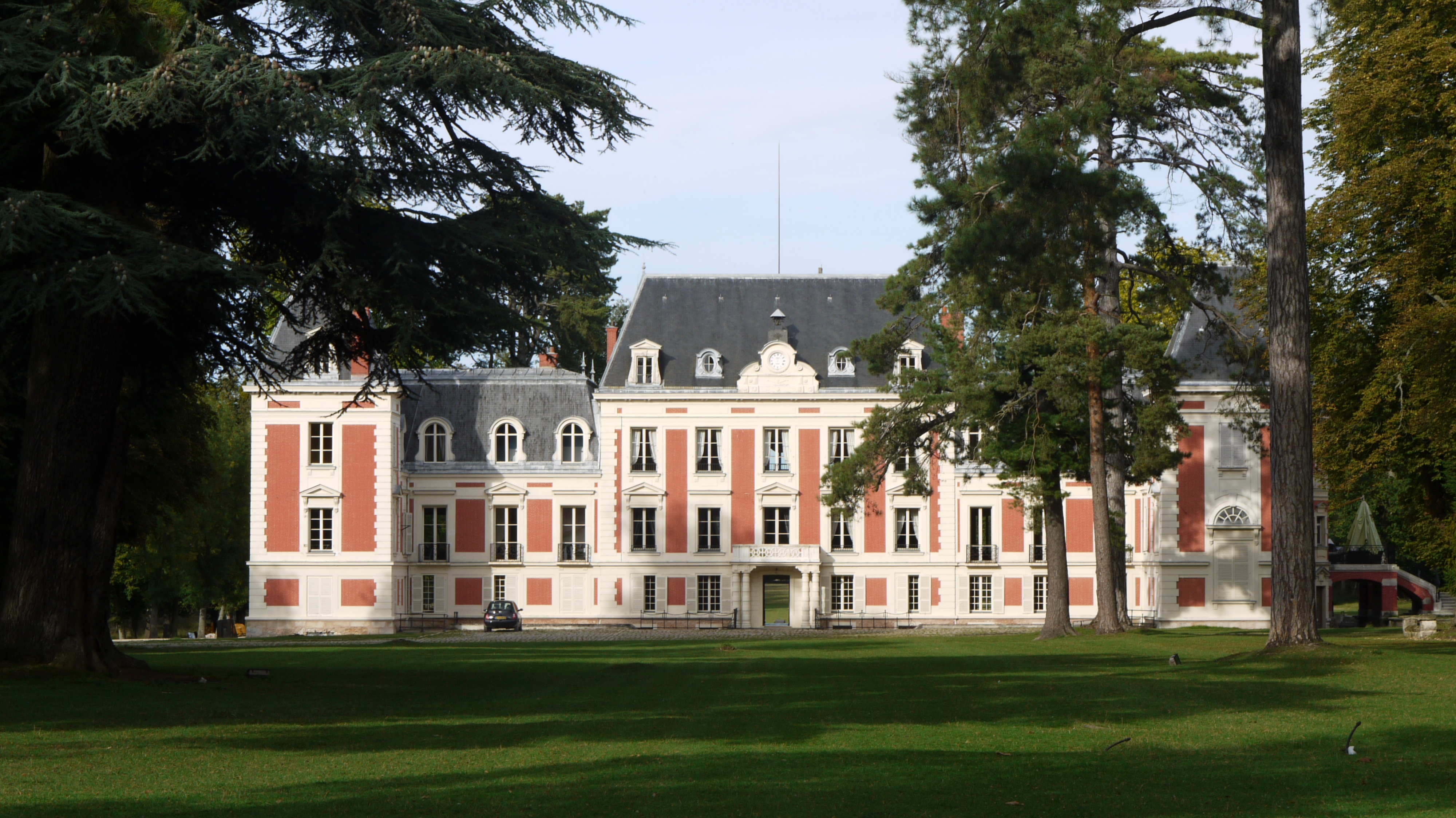 Castle du Monceau Liverdy en Brie, Seine et Marne, Ile de France